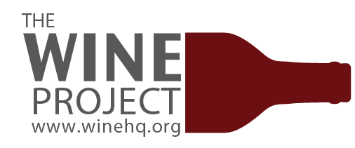 WINE project logo with text